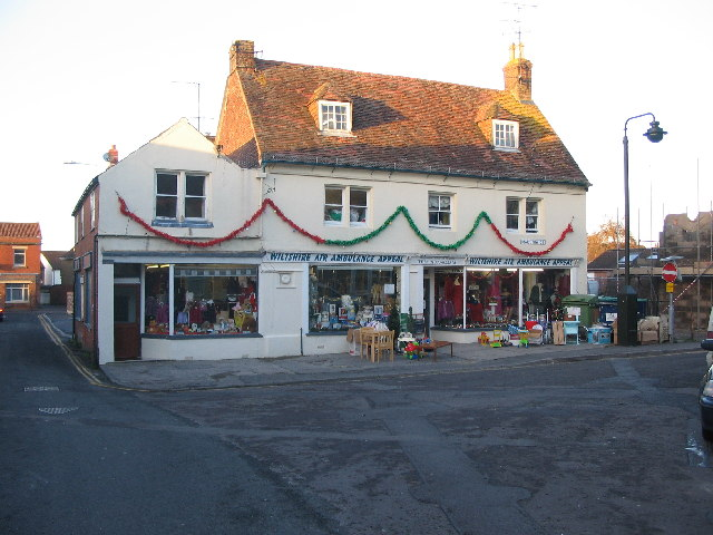 Air Ambulance shop, Westbury. Looking north to the Air Ambulance charity shop at the end of Maristow Street, Westbury.